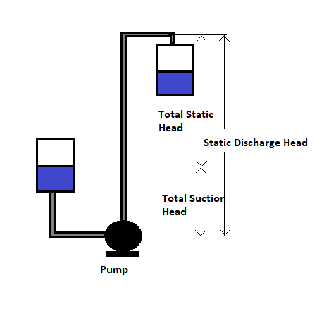 A visual schematic representation of pressure heads in a pump, showing the pump, piping system and the reservoirs.